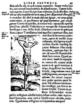 Page from the book De Cruce Libri Tres by Justus Lipsius